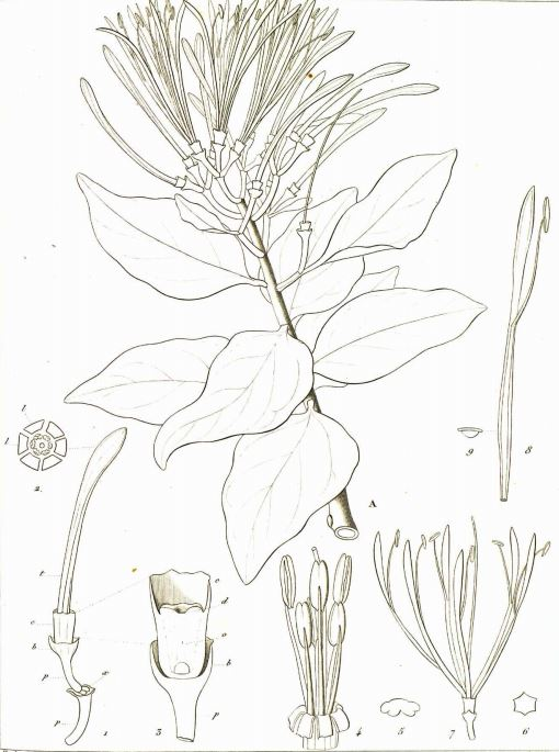 de Candolle, A.P. 1830. Collection de memoires pour servir a l'histoire du regne vegetal. Sixieme memoire sur la famille des Loranthacees vi. t. 10.